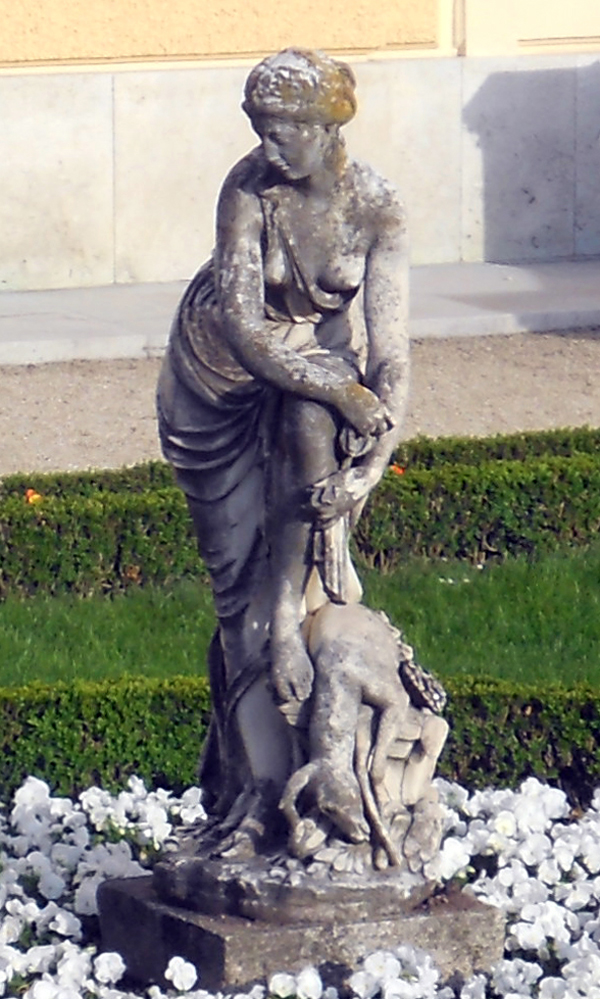 Diana in the Privy Garden at Schönbrunn